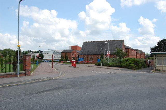 Hereford County Hospital